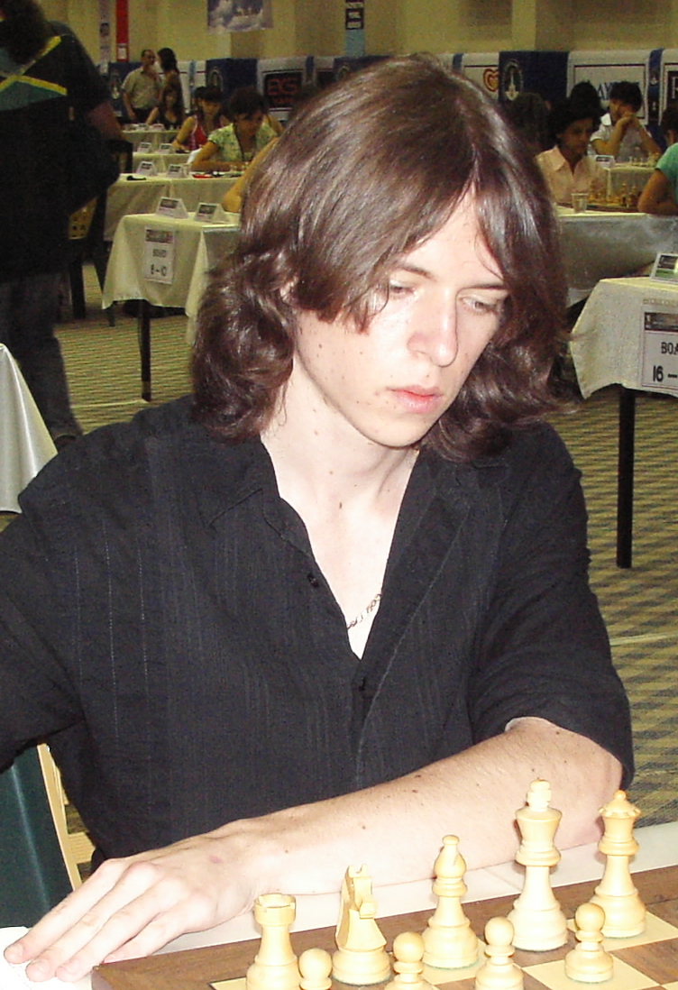 GM Maxim Rodshtein Israel, World Junior Chess Championship, Gaziantep 2008